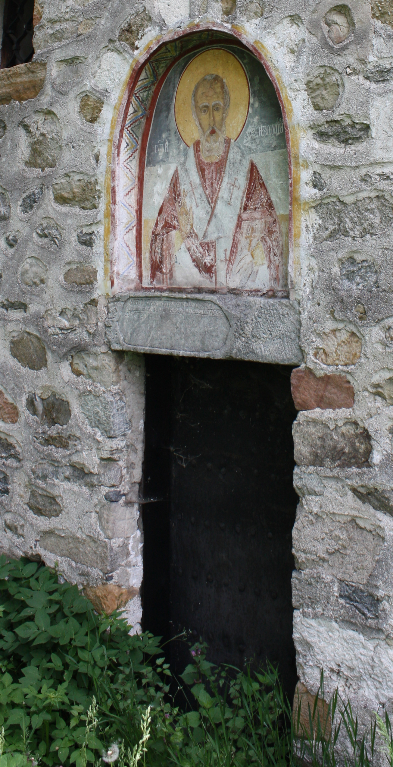 19th century Entrance of Saint Nicolas church in Maritsa